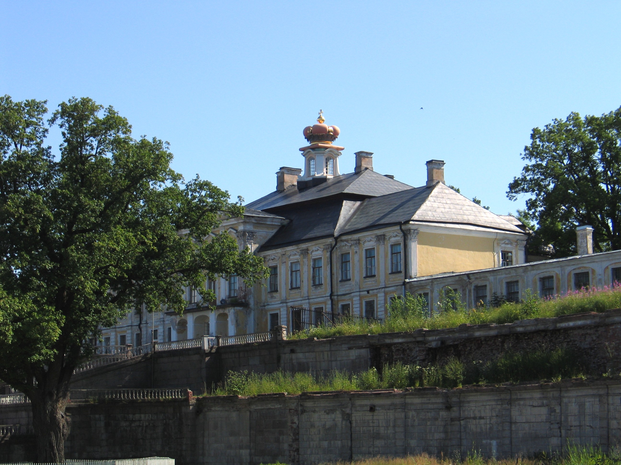 Grand Menshikov Palace in Oranienbaum